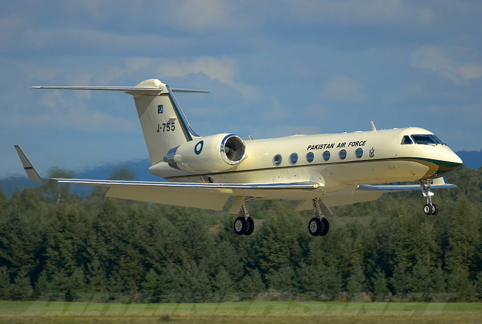 Pakistan Air Force's Gulfstream IV for President and Prime Minister of Pakistan disposal.